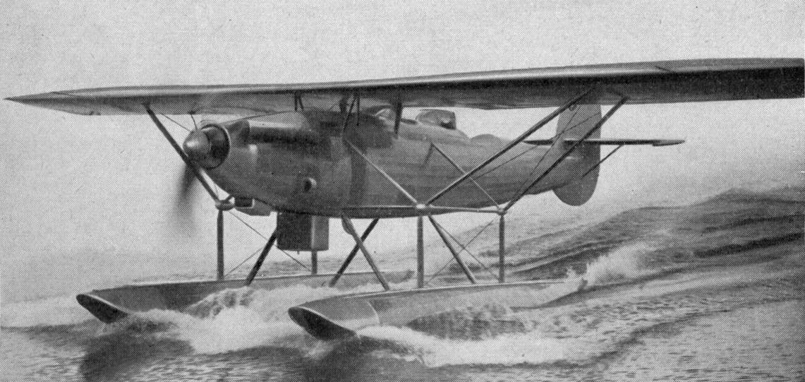 Dornier Do.22 photo from Le Pontentiel Aérien Mondial 1936